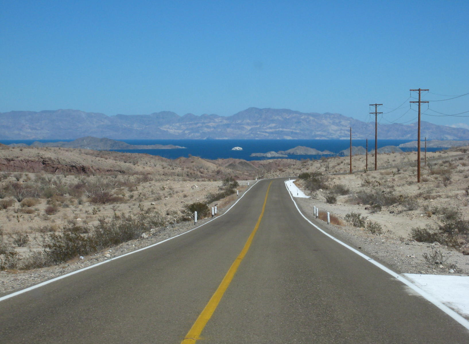 View of Sea of Cortez toward east end of Highway 12.